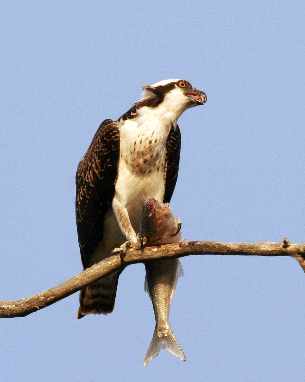 Osprey with fish dinner, at Morro Strand State Beach near Azure Street, Morro Bay, CA